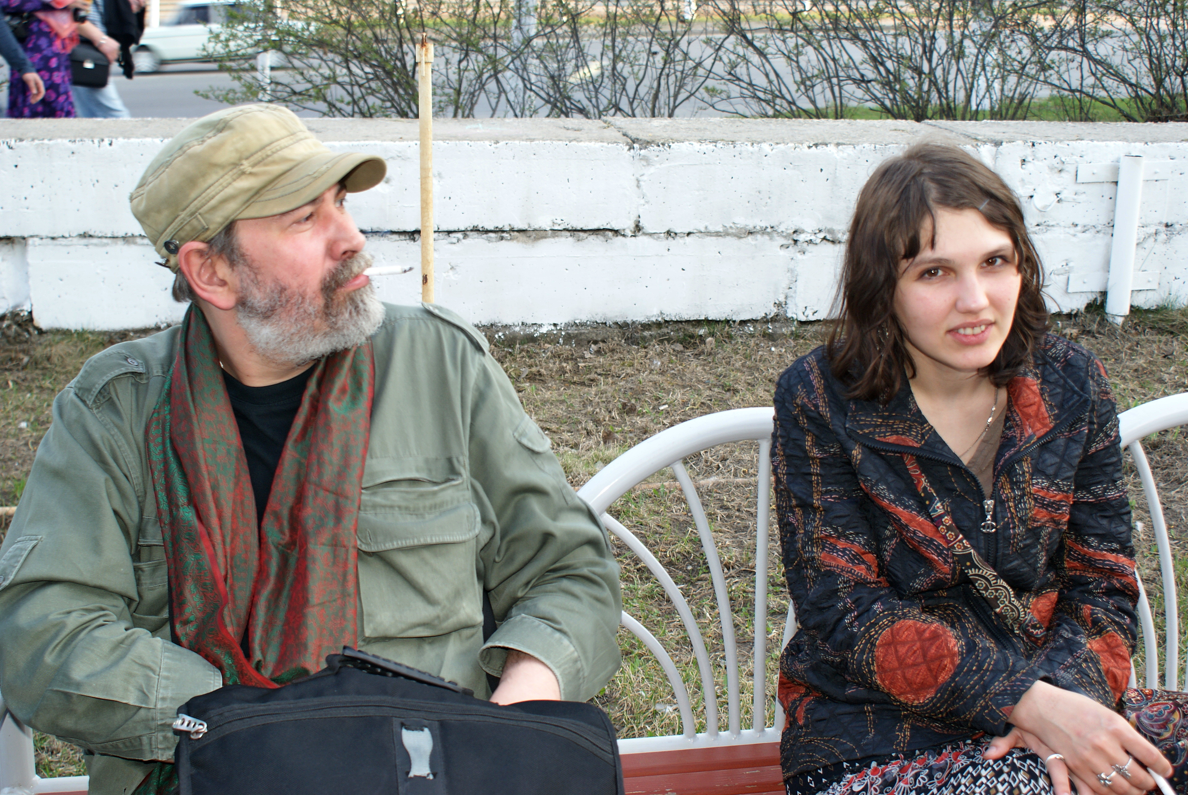 Playwright Vadim Levanov and Yaroslav Pulinovich. Near The Molodezhnii dramaticheskii theatre after the readings in the framework of the project "New readings". Komsomolsk district, Tolyatti, Russia. May 3, 2009.